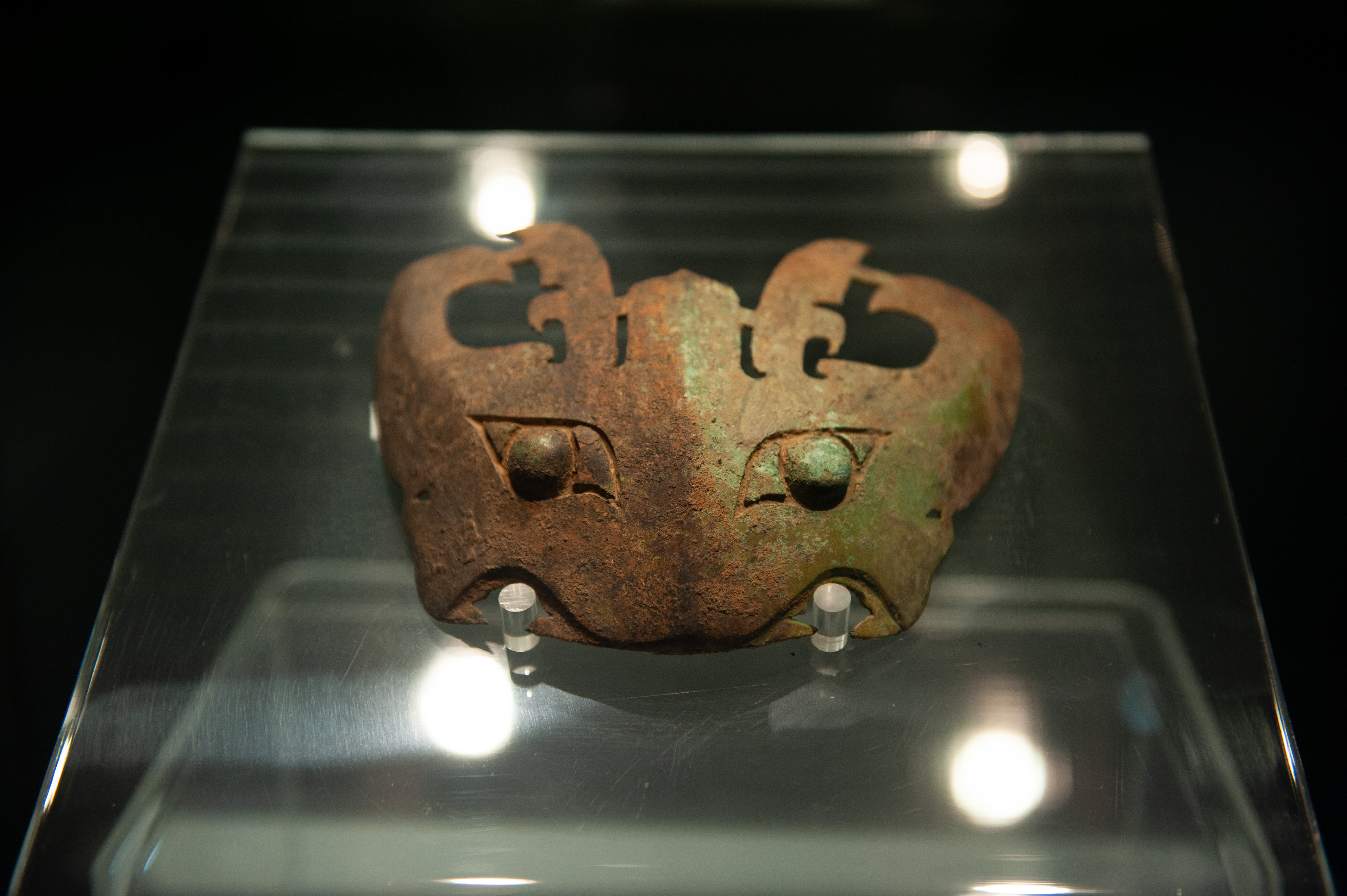 铜面具 盘龙城采集 湖北省博物馆藏